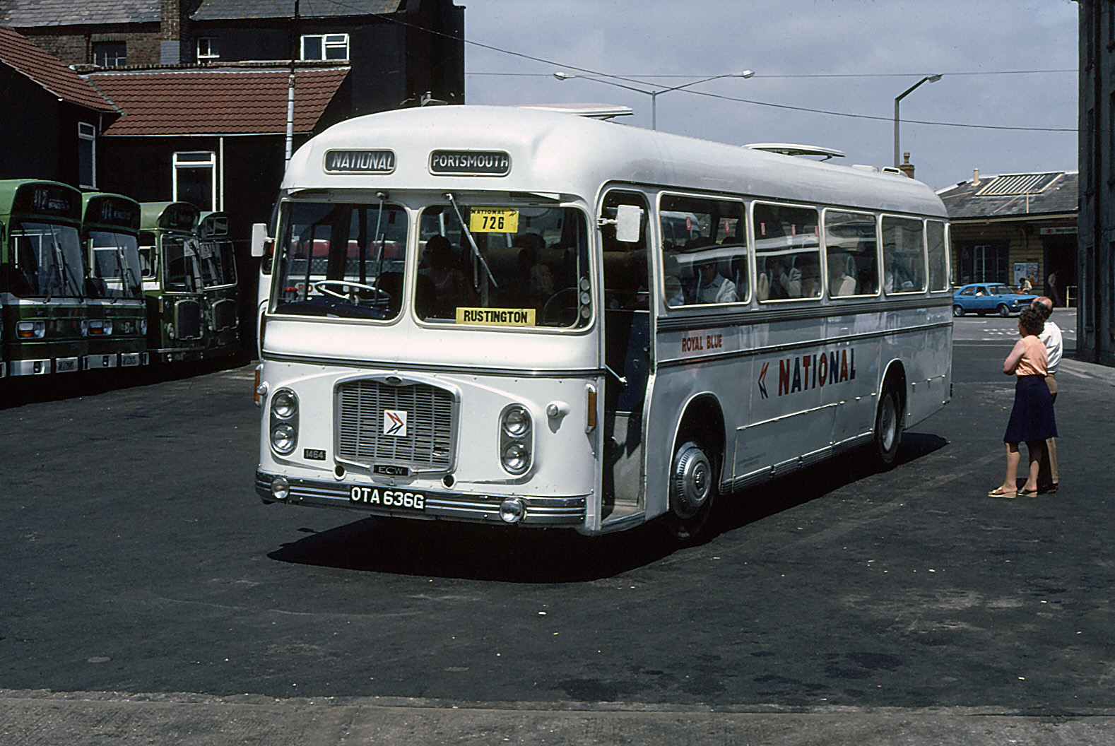 Royal Blue at Weymouth. A coach service for Portsmouth stands in the bus station. The passengers are on board and a couple wait to wave goodbye to a friend but the driver has yet to return. On the left is a line-up of local buses between duties, parked behind a block of houses on King Street. To the right of the coach, the old Brunel built Weymouth Railway Station is visible.